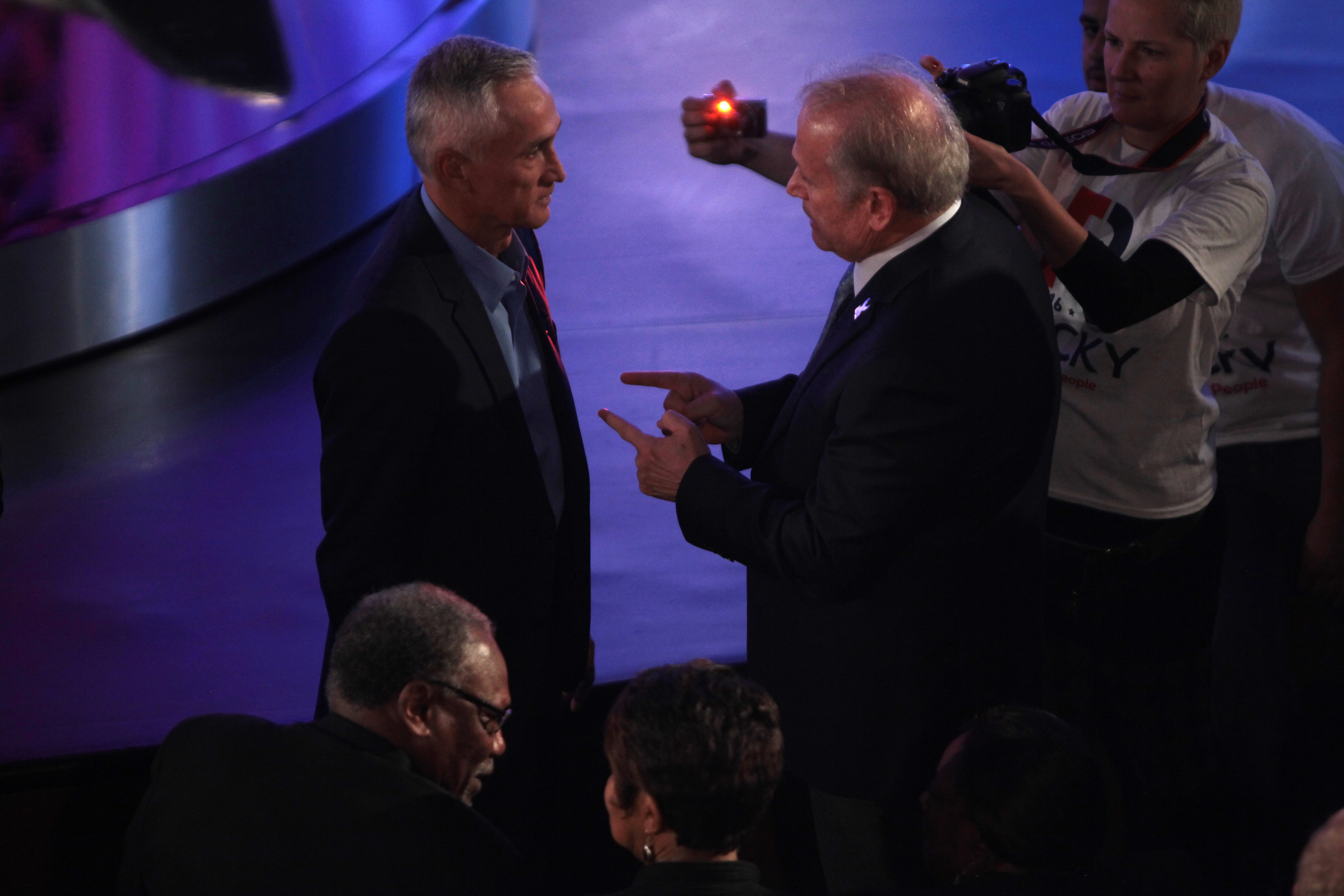 Jorge Ramos and Roque “Rocky” De La Fuente speaking at the Brown & Black Presidential Forum at Sheslow Auditorium at Drake University in Des Moines, Iowa.